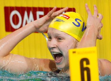 22 March 2008. Sweden's Sarah Sjöström celebrates after winning the gold medal in the final of the Women's 100 m butterfly during the European Swimming Championships in Eindhoven, the Netherlands.